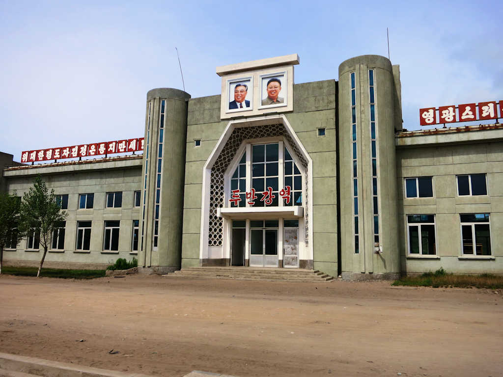 Tumangang Station, Rason City, Democratic People's Republic of Korea Category:Transport infrastructure